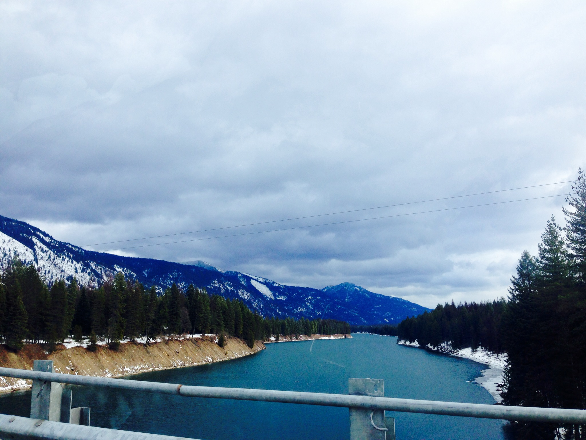 Heron, Montana